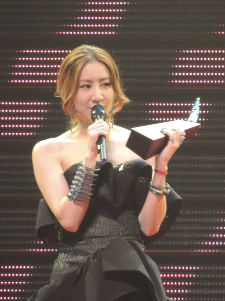 Ultimate Song Chart Awards 2013